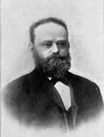 Václav Emanuel Mourek (1846–1911), Czech professor and germanist